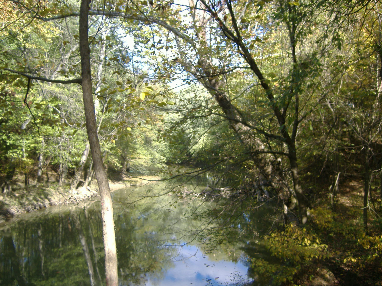 Picture of Silver Creek (Indiana) by Lapping Park in Clarksville, Indiana